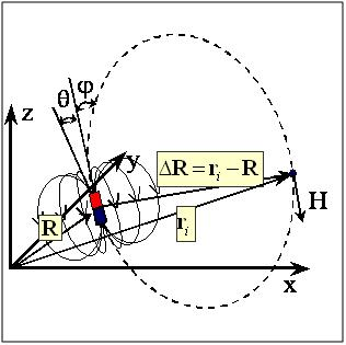 Magnetic Field Distribution